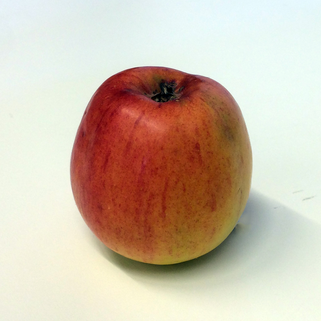 Apple of the cultivar Maglemer, photographed in conjunction with the Apple Festival at Nordiska museet, Stockholm, Sweden in September 2014.